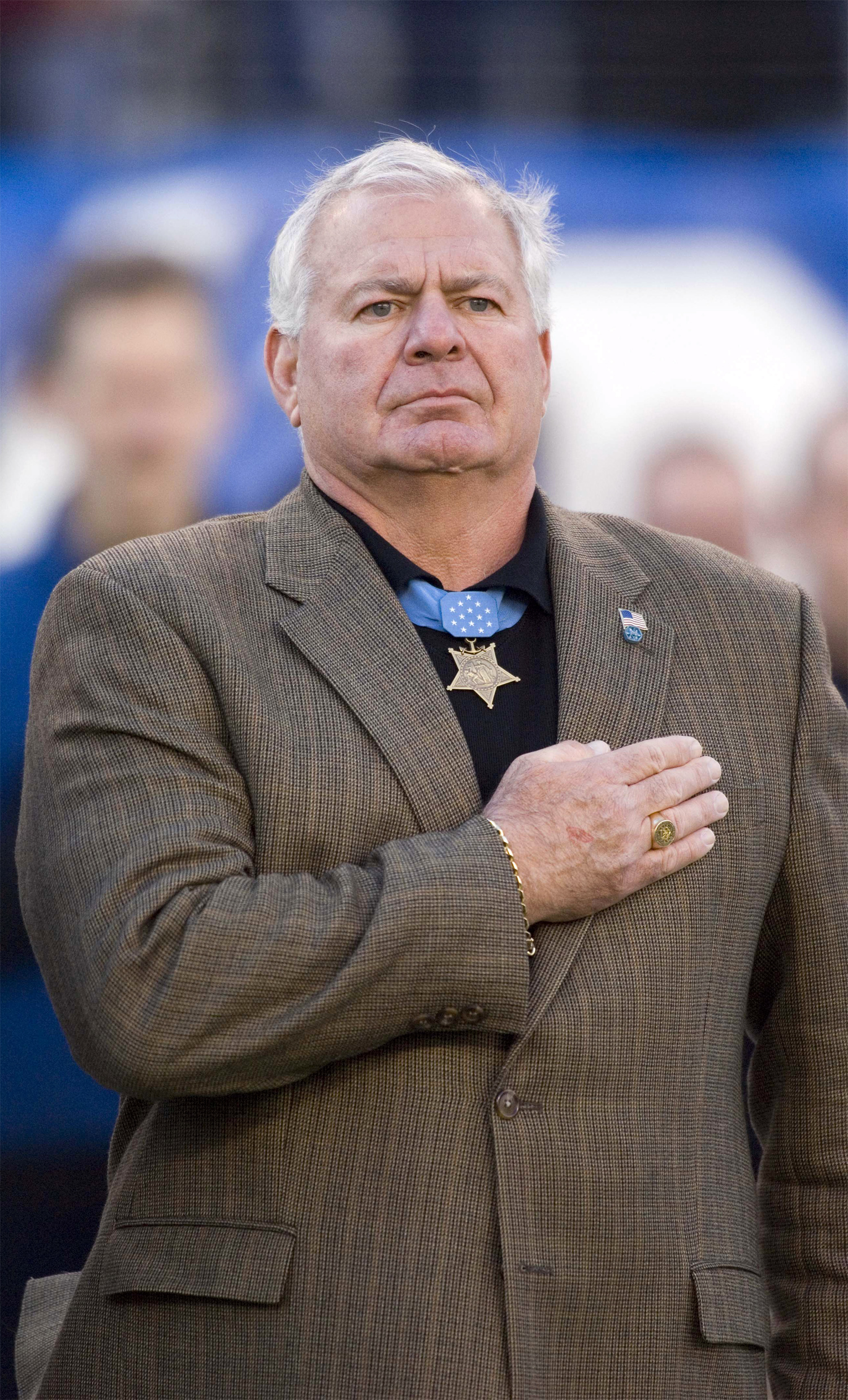 061202-N-5319A-015 Philadelphia, Pennsylvania – Retired Navy SEAL, and Medal of Honor winner, Michael E. Thornton places his hand over his heart as the U.S. Naval Armed Forces Color Guard present the colors during opening ceremonies for the 107th Army vs. Navy football game.